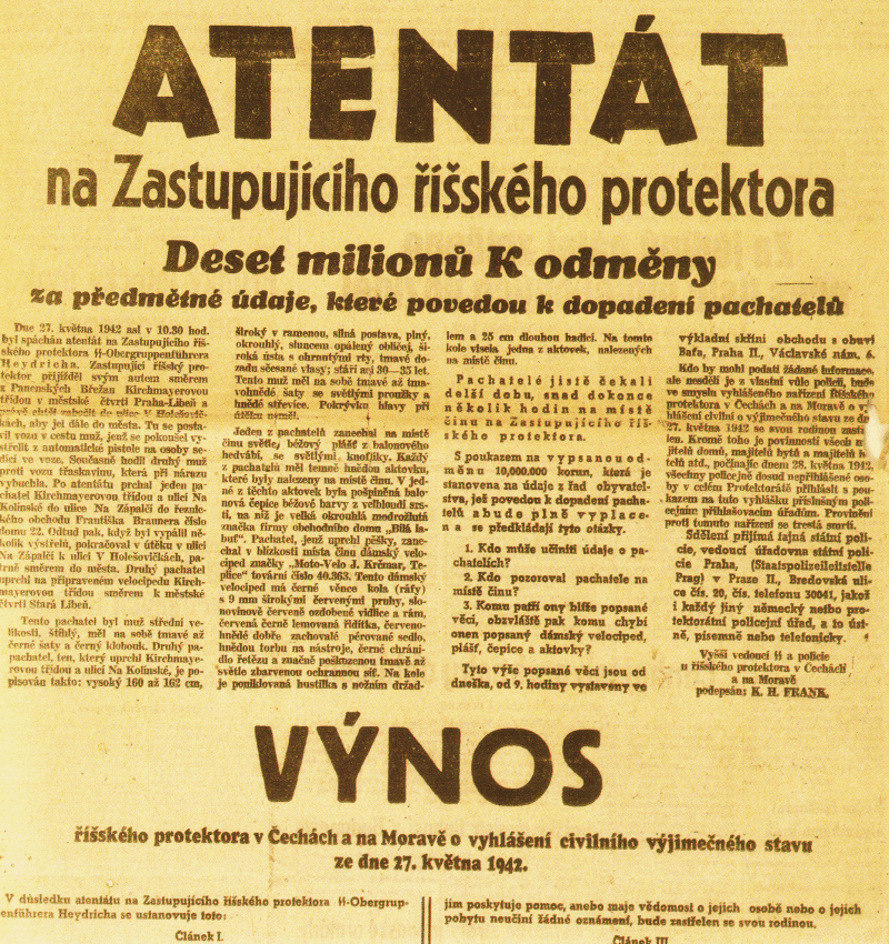 Protectorate of Bohemia and Moravia: Newspapers Delivering a report on the assassination of Heydrich, and the declaration of martial law